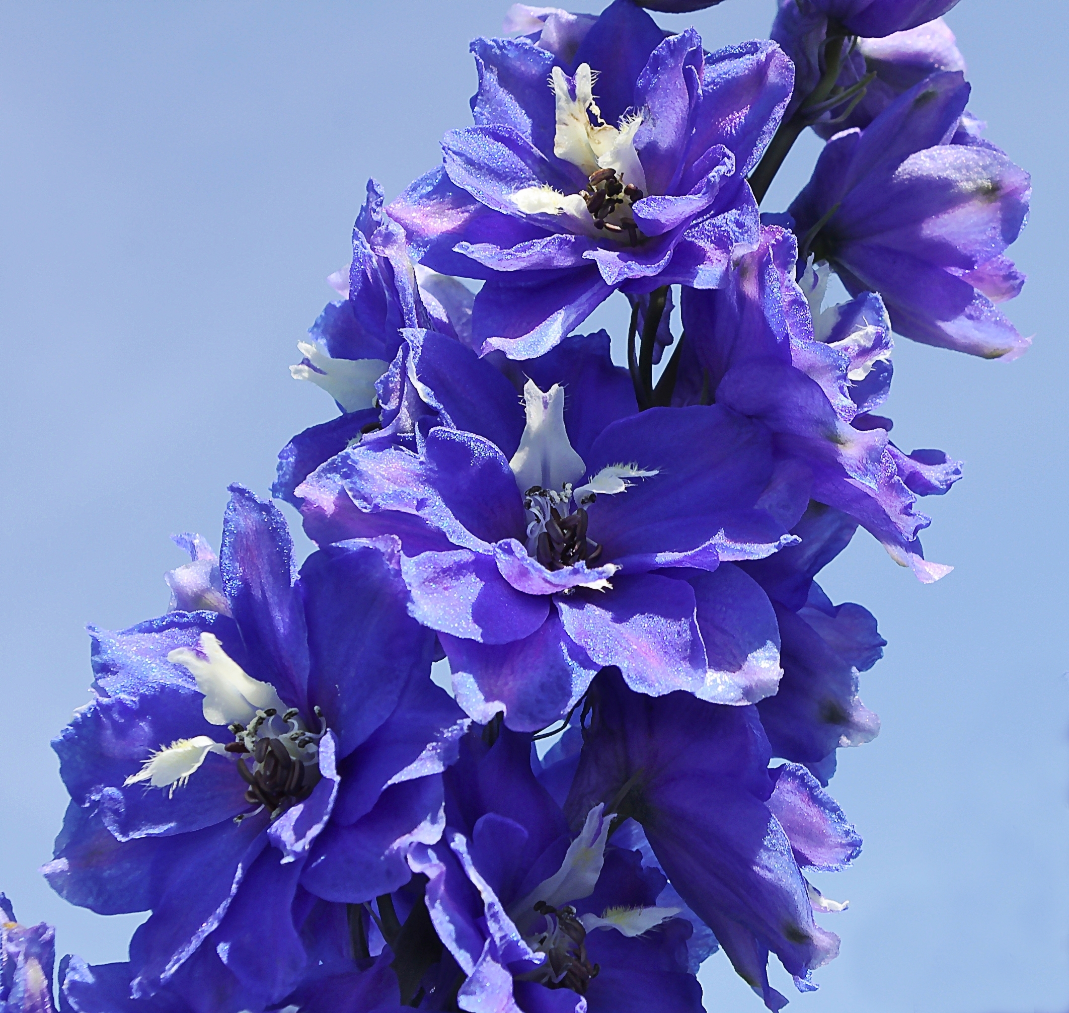 Larkspur(Delphinium x cultorum), inflorescence (detail), in a garden, France